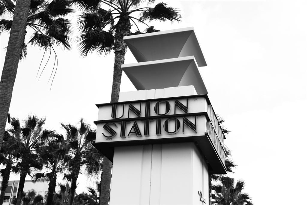 A view of the Union Station sign, familiar to many of downtown Los Angeles' visitors.